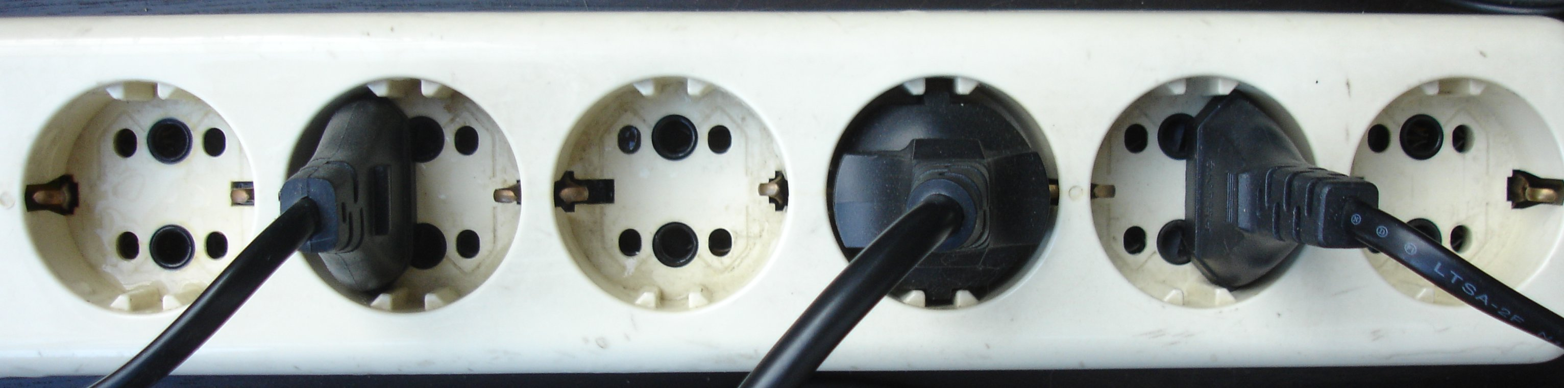 Socket which accepts six plugs type F or 12 plugs type C